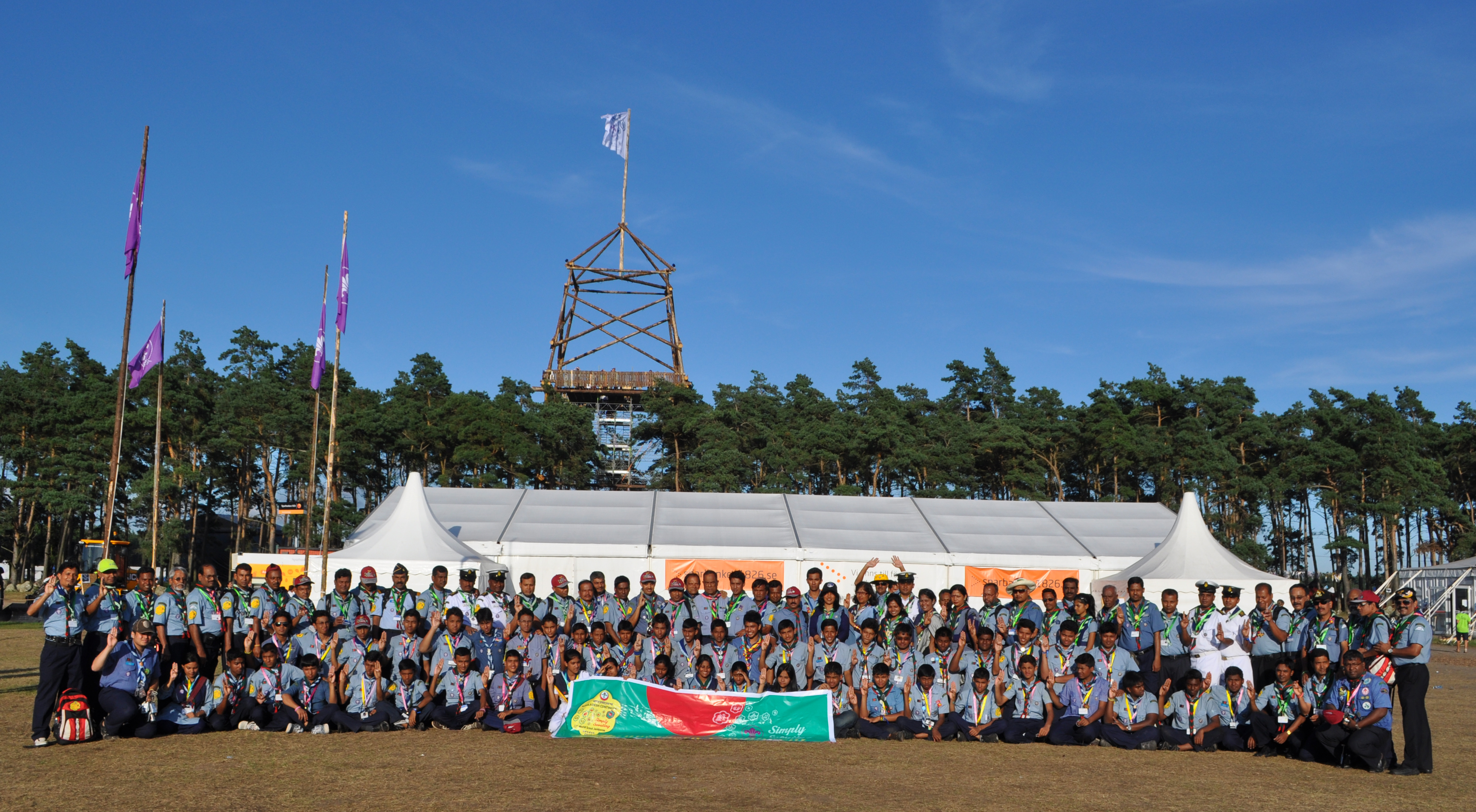 World Scout Jamboree 2011, Bangladesh Contingent